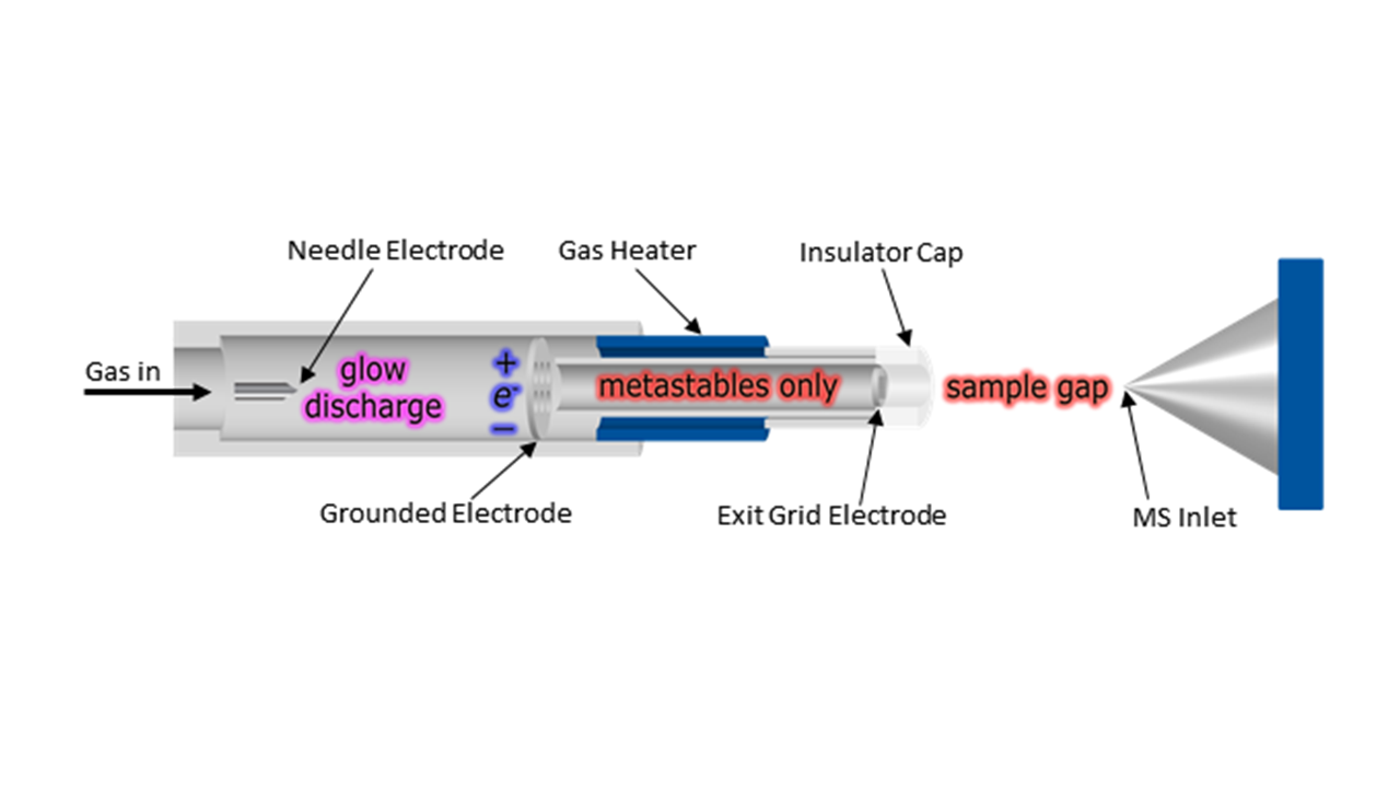 Schematic diagram of a Direct Analysis in Real Time (DART) ion source as it is currently manufactured.